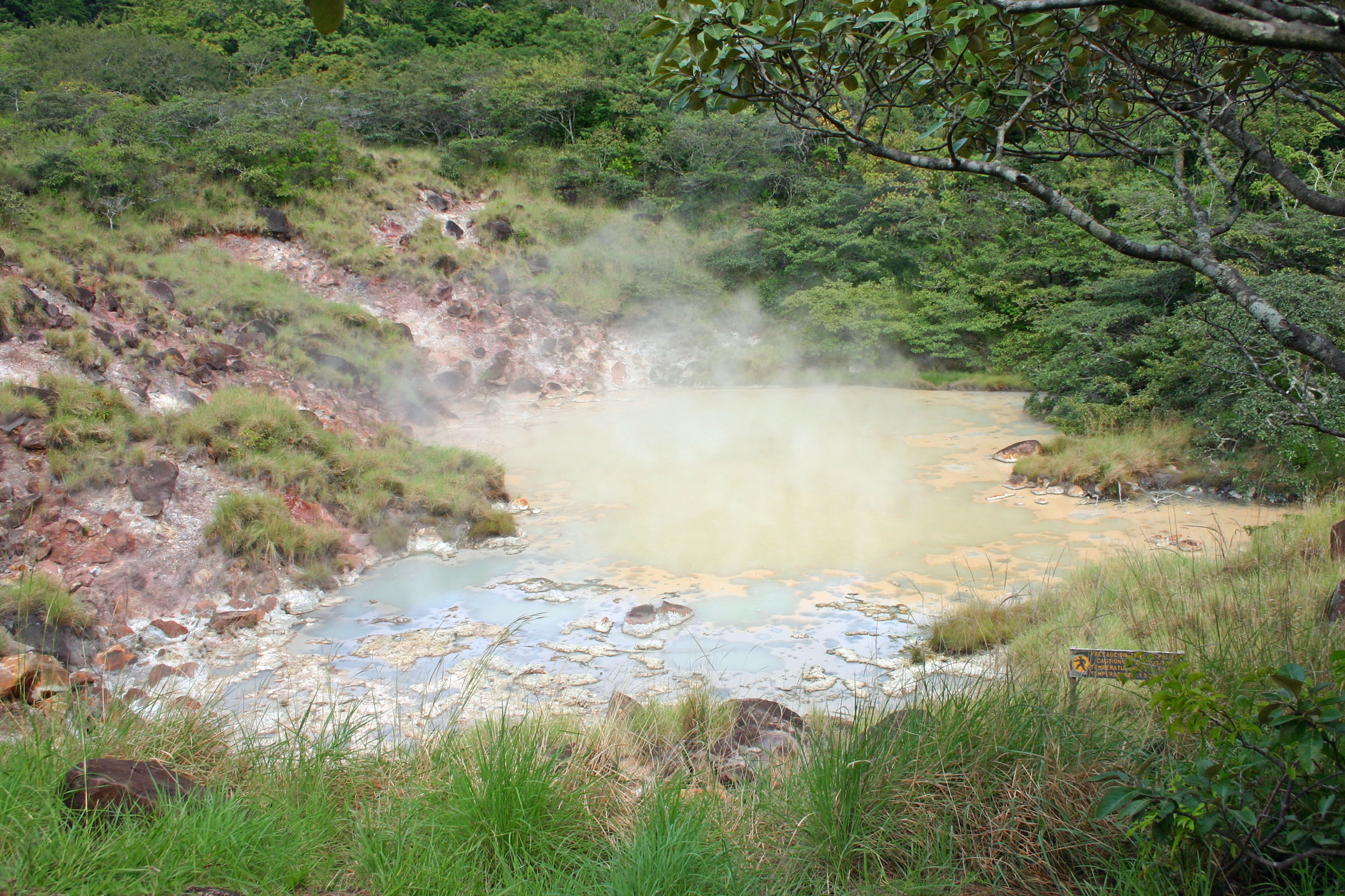 Hot Spring in Costa Ricas National Park Rincón de la Vieja